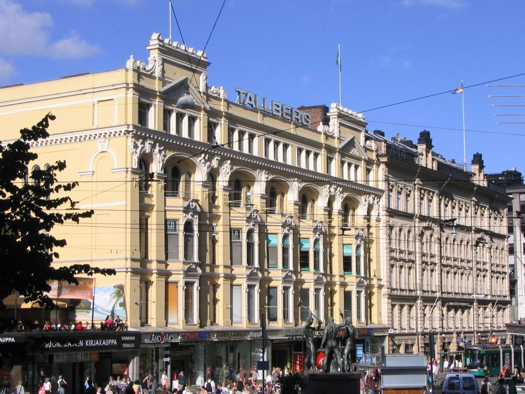 Aleksanterinkatu-street numbers 19 and 21 in Helsinki, Finland. In foreground statue "The three smiths".